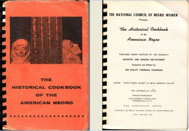 Cookbook by Sue Bailey Thurman